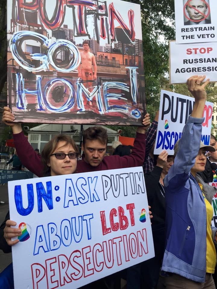 Kargalsev and friends at LGBT protest.